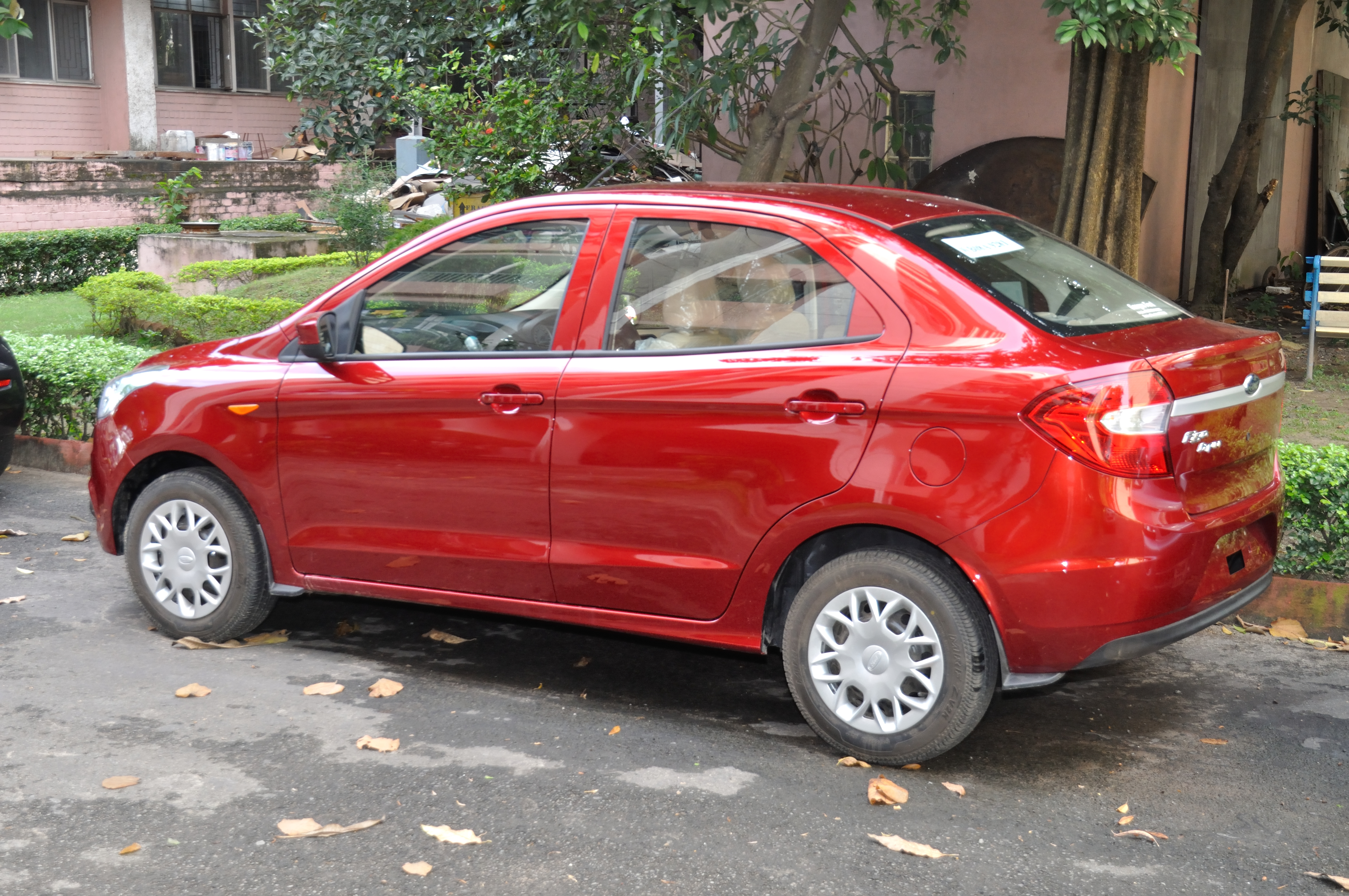 Photographed in Kolkata.